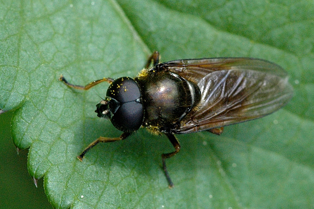 Picture taken in Commanster, Belgian High Ardennes . Species: male Cheilosia albipila